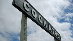 Ben Schueddekopf